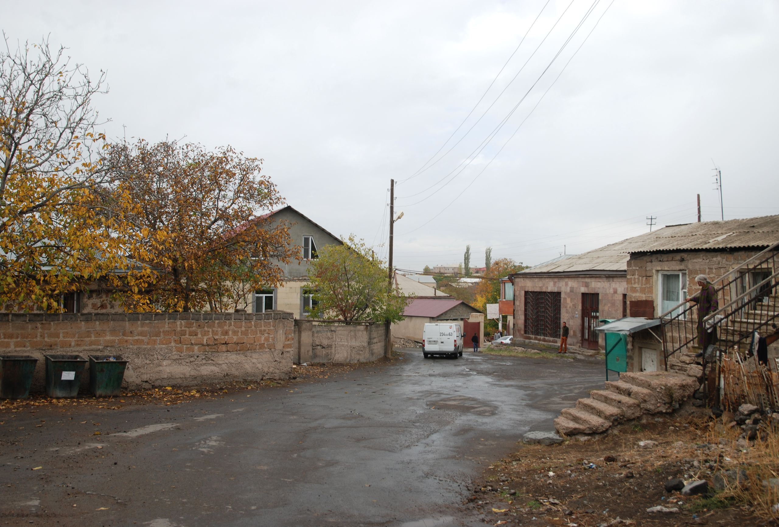 Ptghni, village center